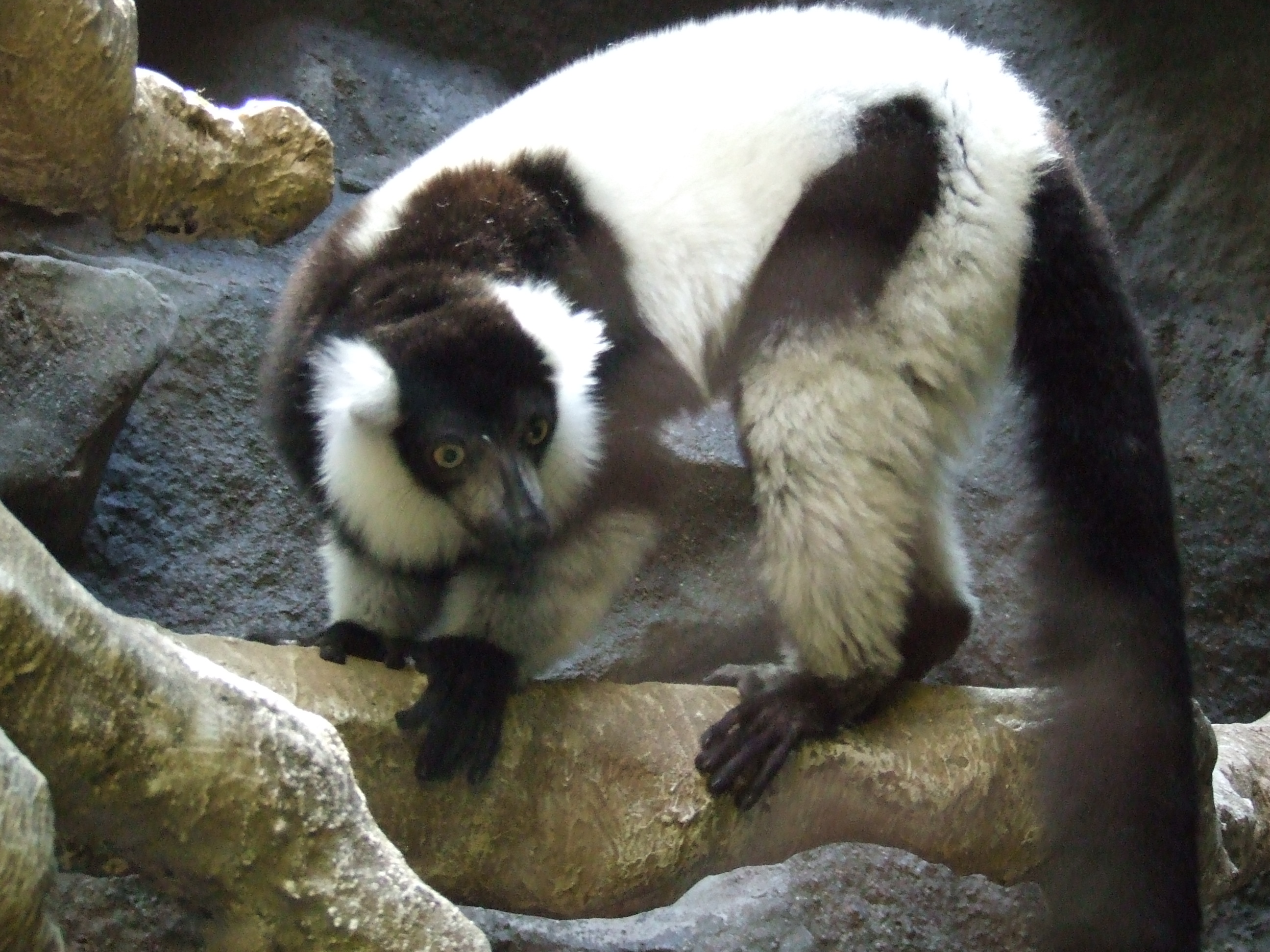 Black-and-white Ruffed Lemur (Varecia variegata) at Barcelona Zoo (Catalonia, Spain).